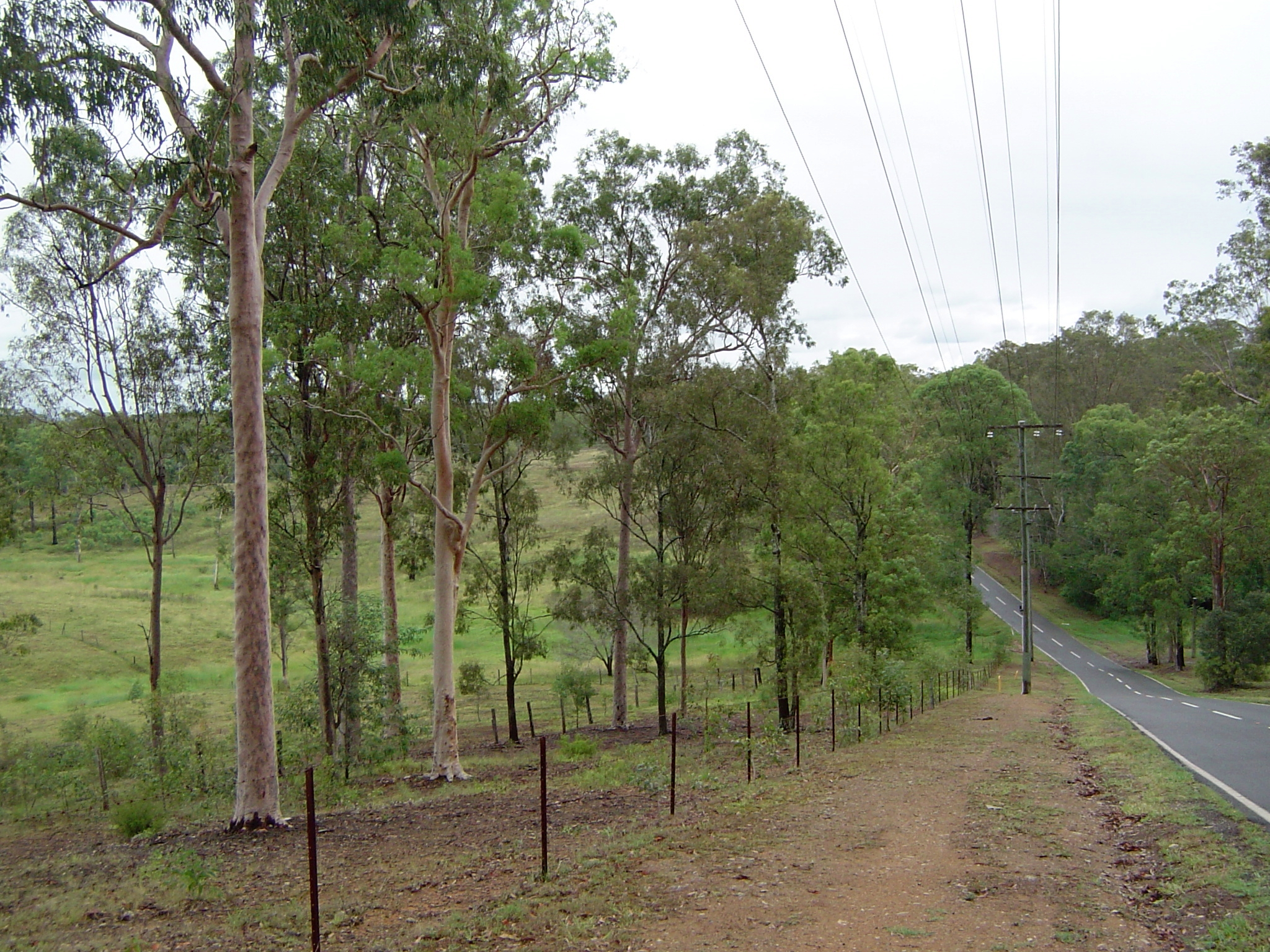 Photo of paddocks viewed from Pinjarra Road at Pinjarra Hills, Queensland, Australia. The property is owned by the University of Queensland. Paddocks were used by horses for grazing and field work in some courses.